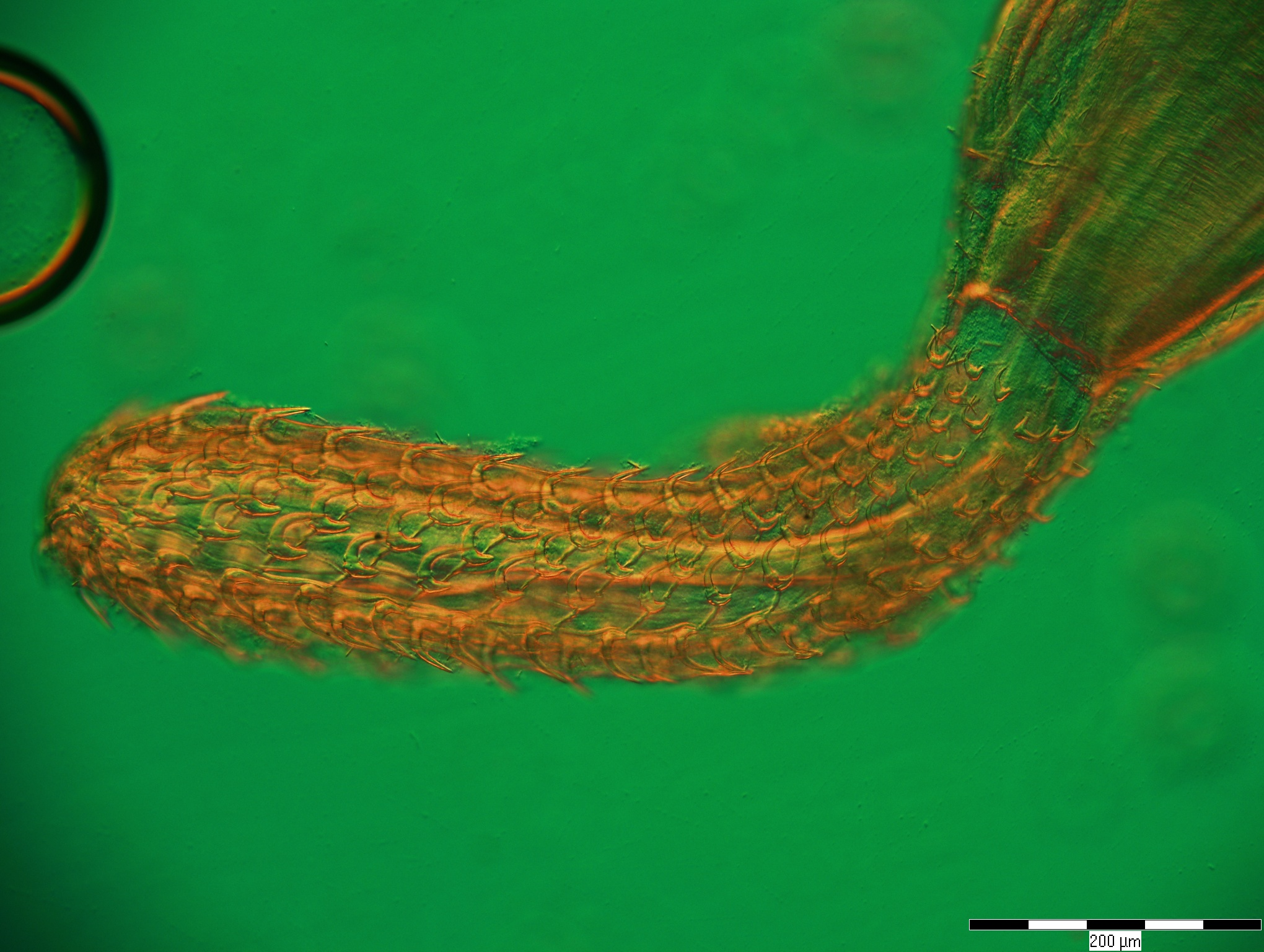 The proboscis of Telosentis exiguus from the Grass Goby (Zosterisessor ophiocephalus) from Ukraine